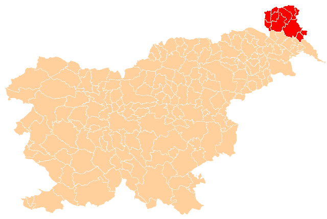 Goricko, traditional region of Slovenia